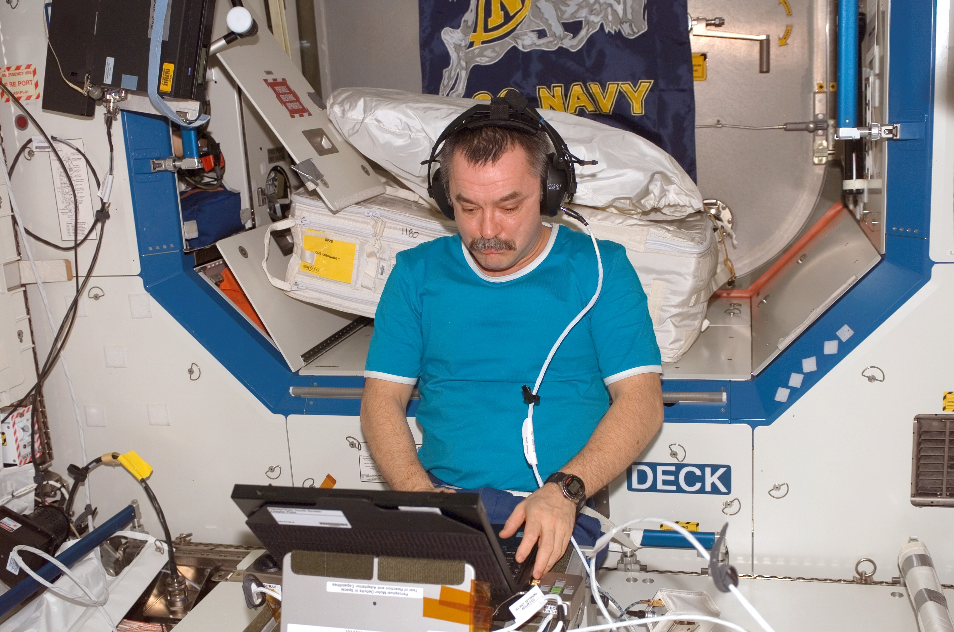 Cosmonaut Mikhail Tyurin, Expedition 14 flight engineer representing Russia's Federal Space Agency, works with the Test of Reaction and Adaptation Capabilities (TRAC) experiment in the Destiny laboratory of the International Space Station. The TRAC investigation will test the theory of brain adaptation during space flight by testing hand-eye coordination before, during and after the space flight.